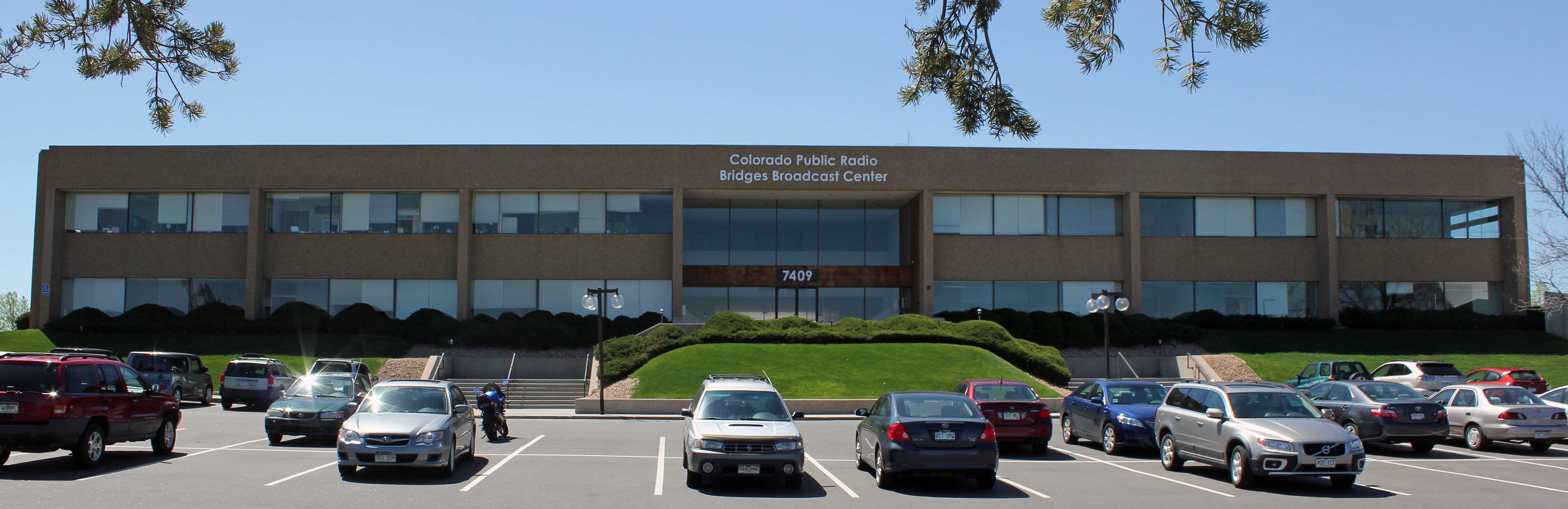 The studios of Colorado Public Radio, located at 7409 South Alton Court in Centennial, Colorado. The building is also called the Bridges Broadcast Center